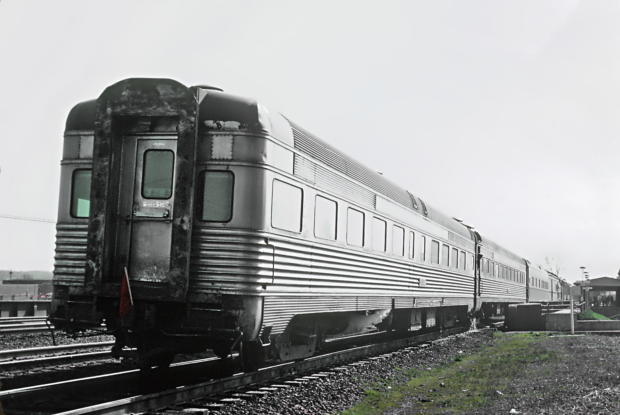 A Roger Puta Photograph